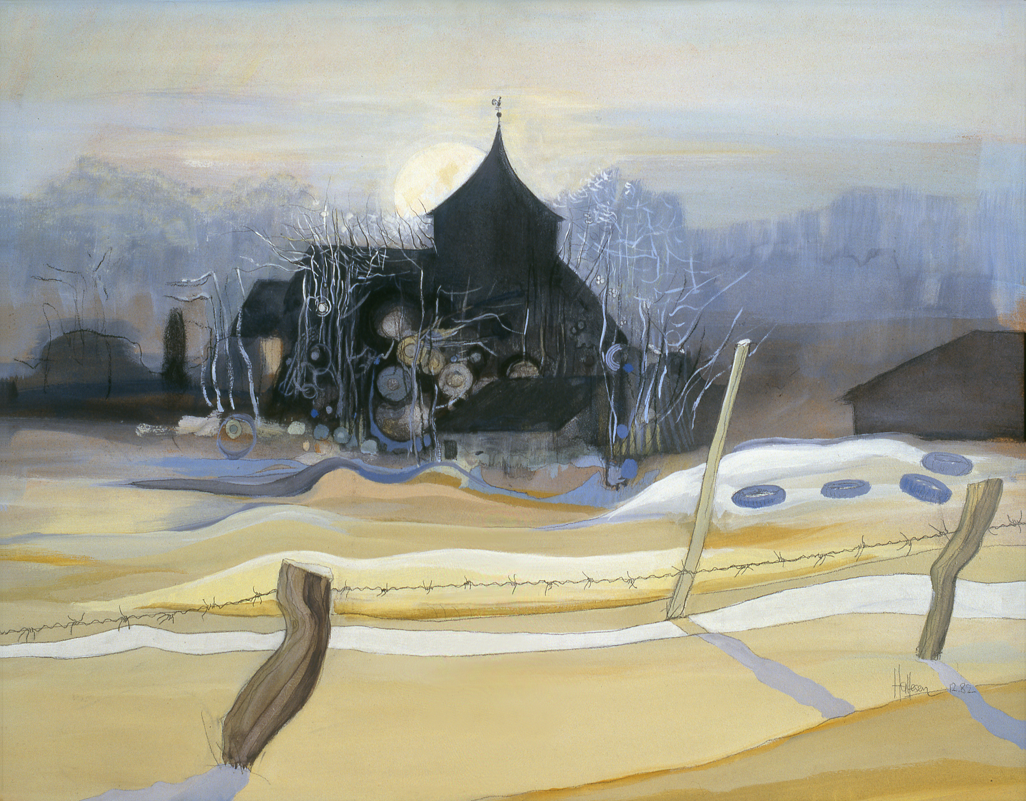 The church of Oeversee. Painting by German-Danish Artist Holger Hattesen (Flensburg 1937-1993)